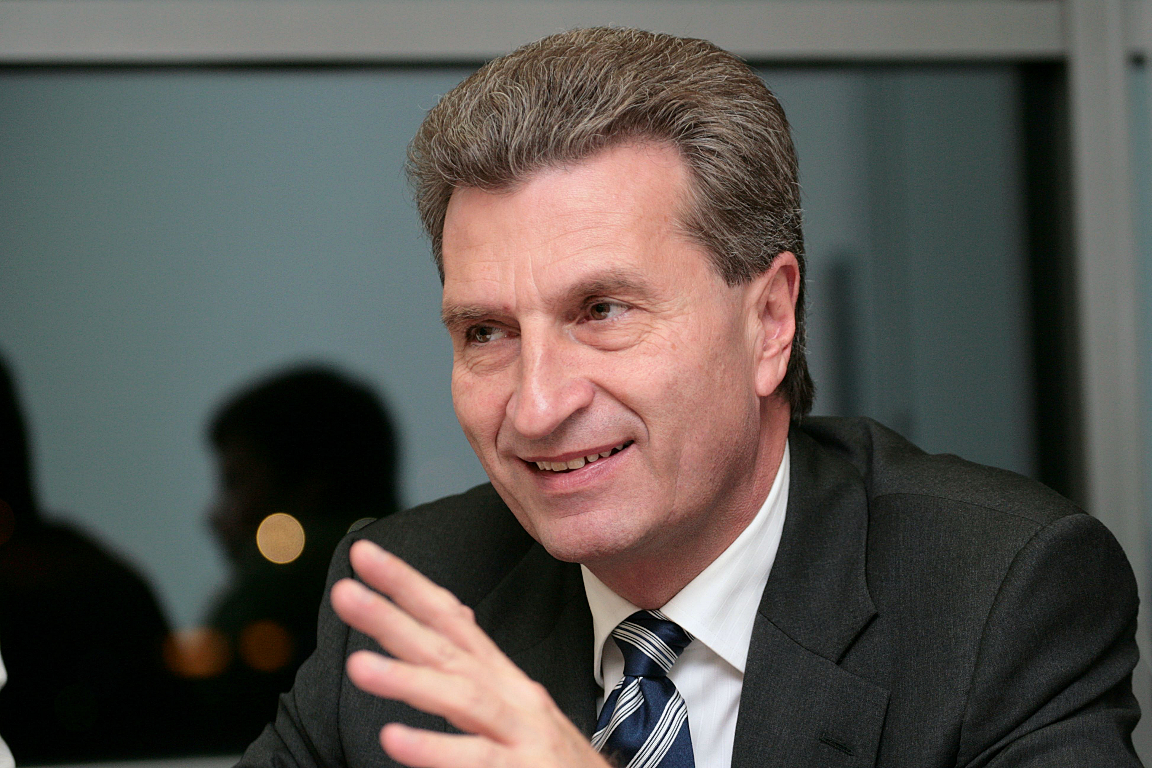 Günther H. Oettinger, former (until 2010-02-10) prime minister of Baden-Württemberg, Germany